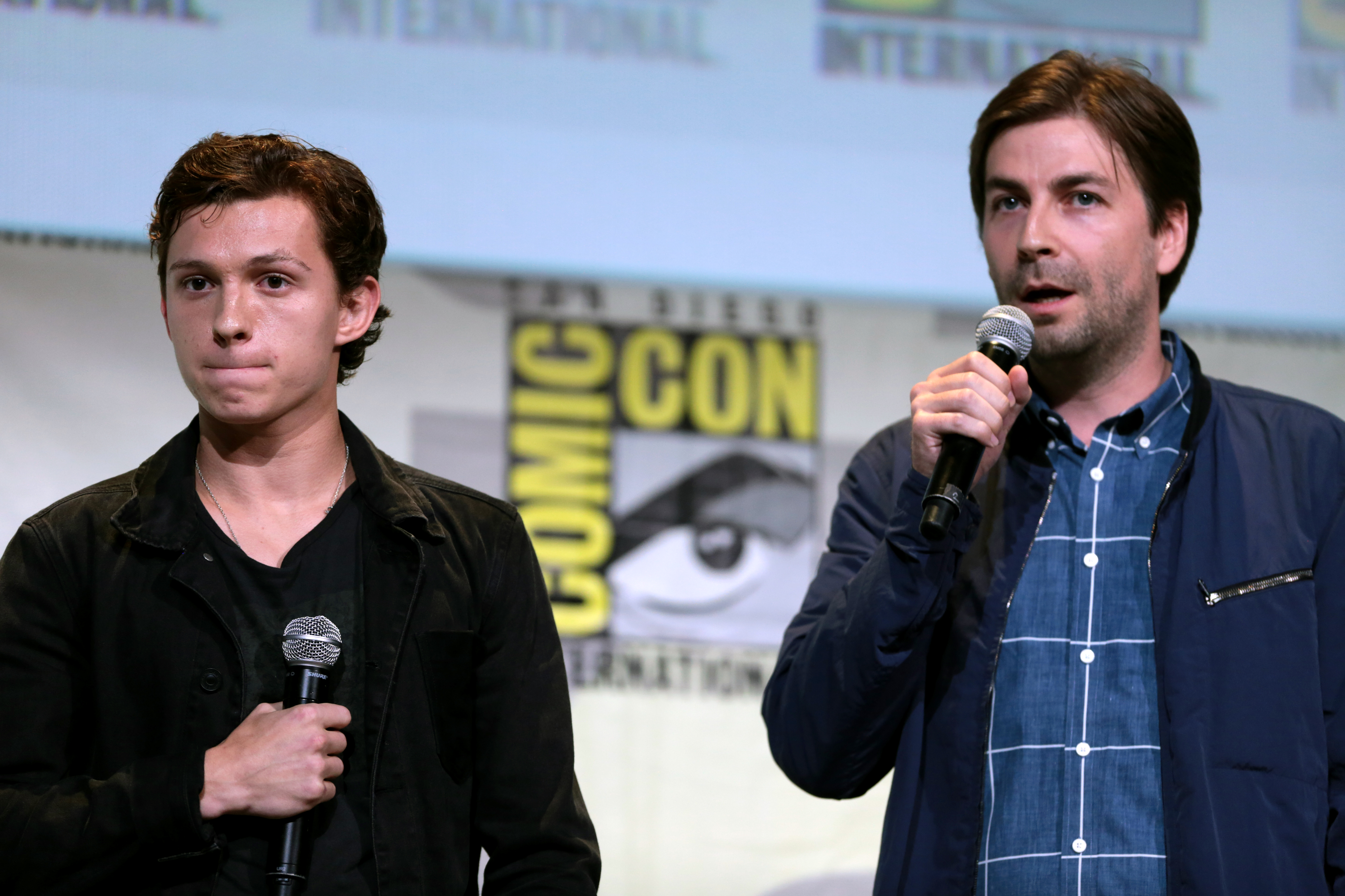 Tom Holland and Jon Watts speaking at the 2016 San Diego Comic Con International, for "Spider-Man: Homecoming", at the San Diego Convention Center in San Diego, California.